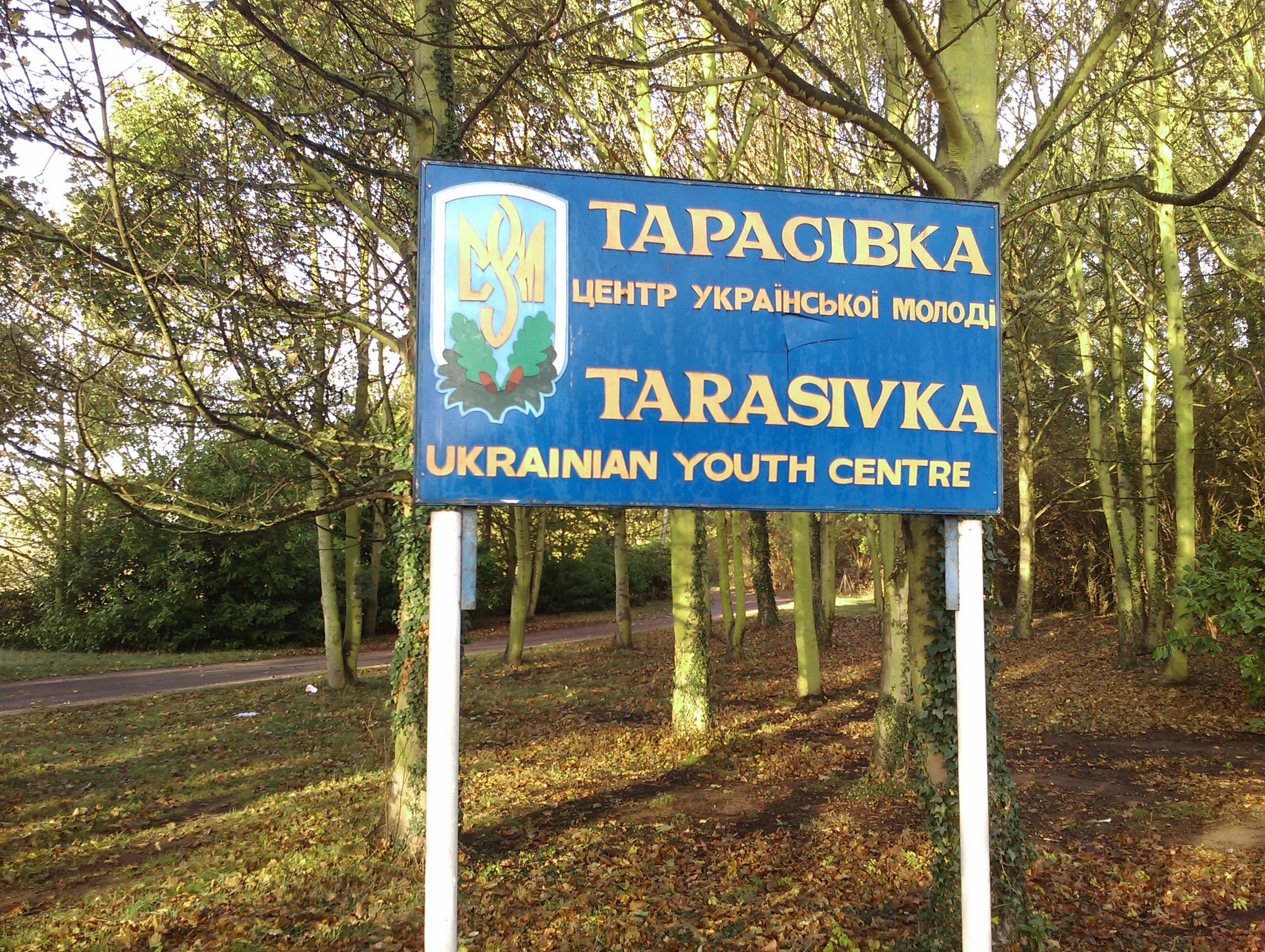 Ukrainian Youth Camp (Part of the Ukrainian Youth Association in Great Britain) at Weston On Trent